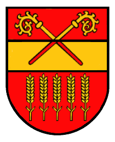 Coat of arms of Gülzow, since 2004 part of the municipality of Gülzow-Prüzen